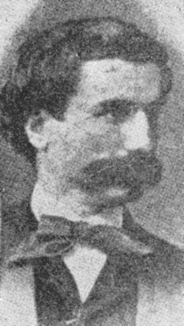 Photograph of Romanian mathematician and political figure Ioan Mire Melik, first published in an album of Junimea literary society members.